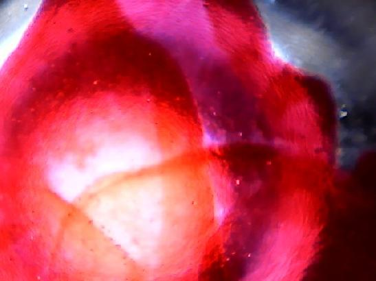 Imagen de Cysticercus carmín maximizada